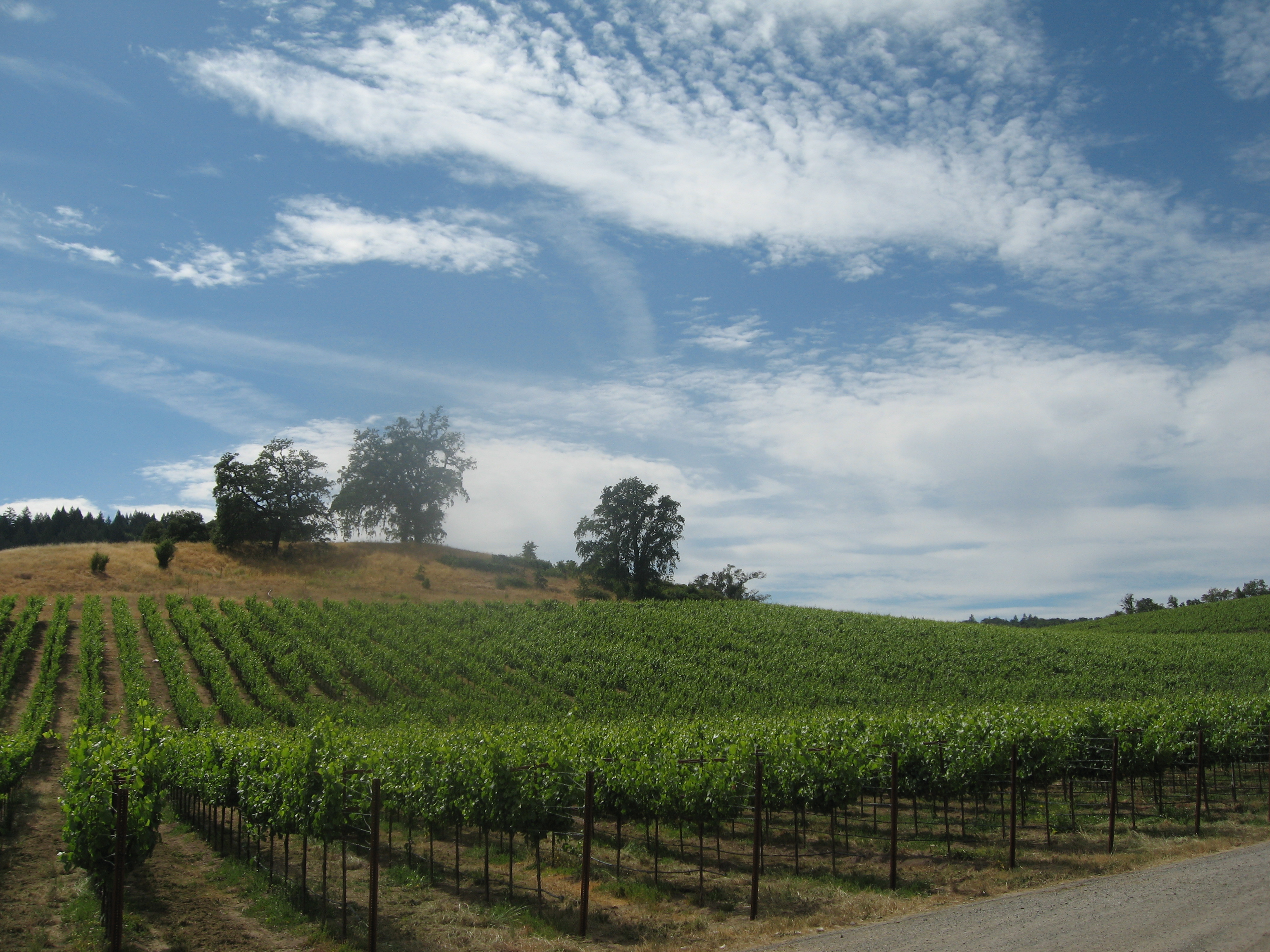 Grape vines in the California wine region of the Russian River Valley